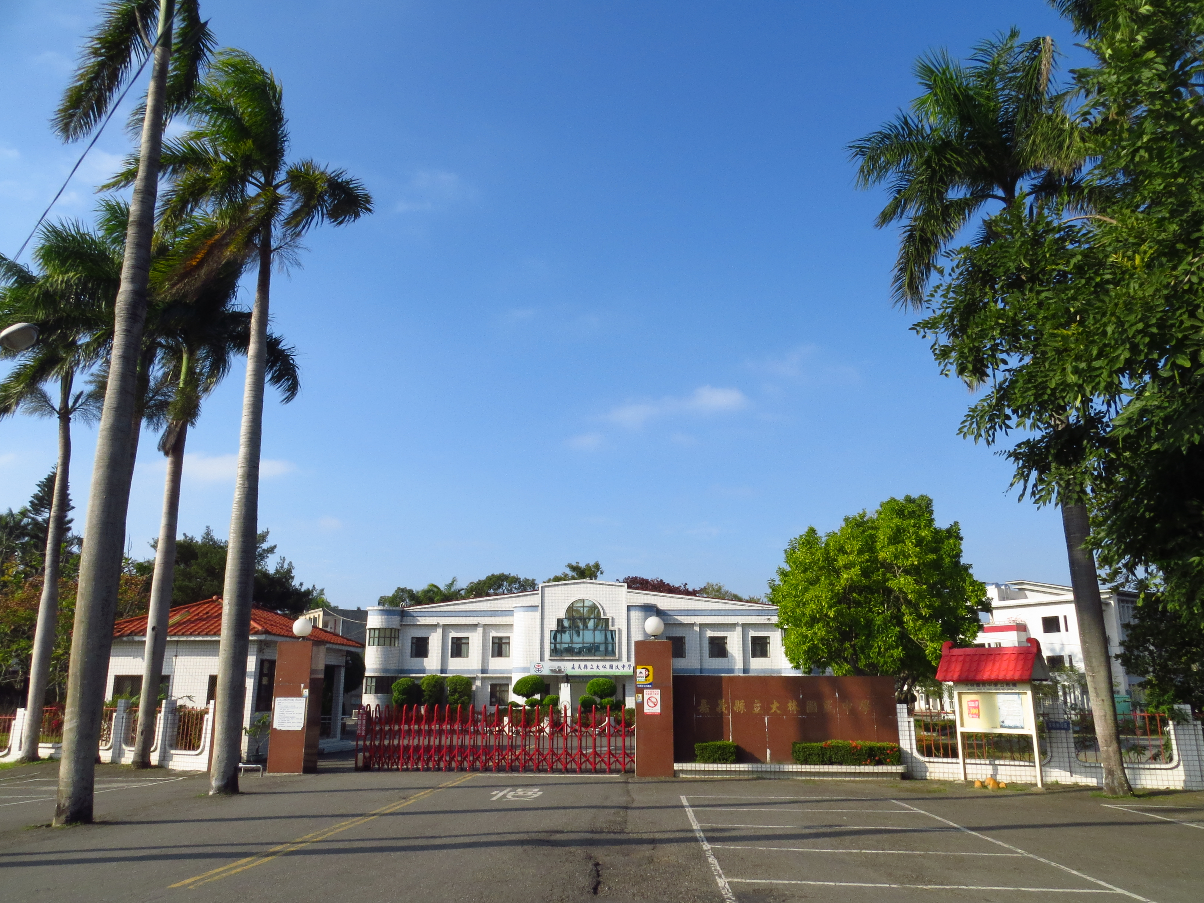 Chiayi County Dalin Junior High School, Dalin Township, Chiayi County, Taiwan.